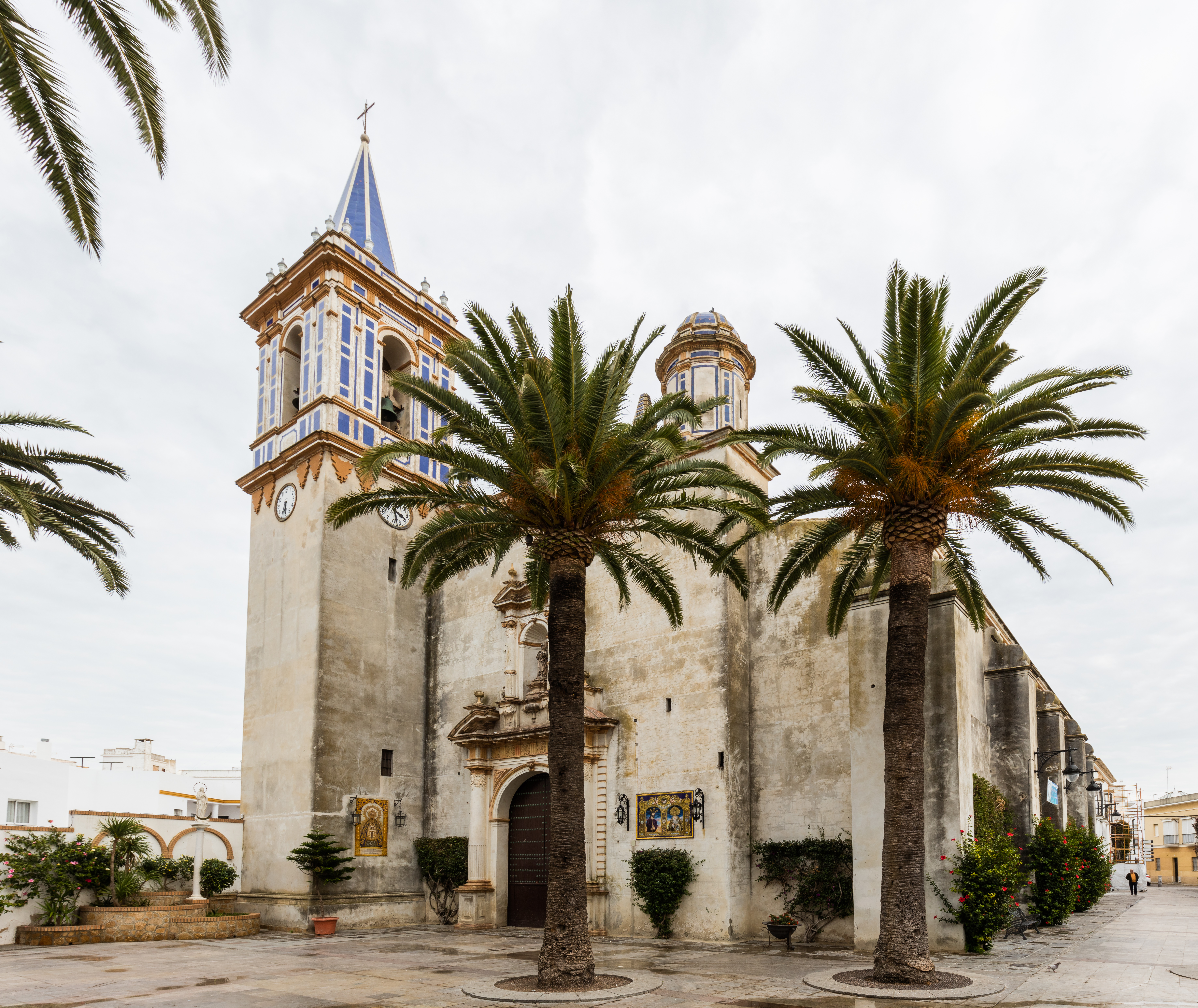 Church of Nuestra Señora de la O, Spain